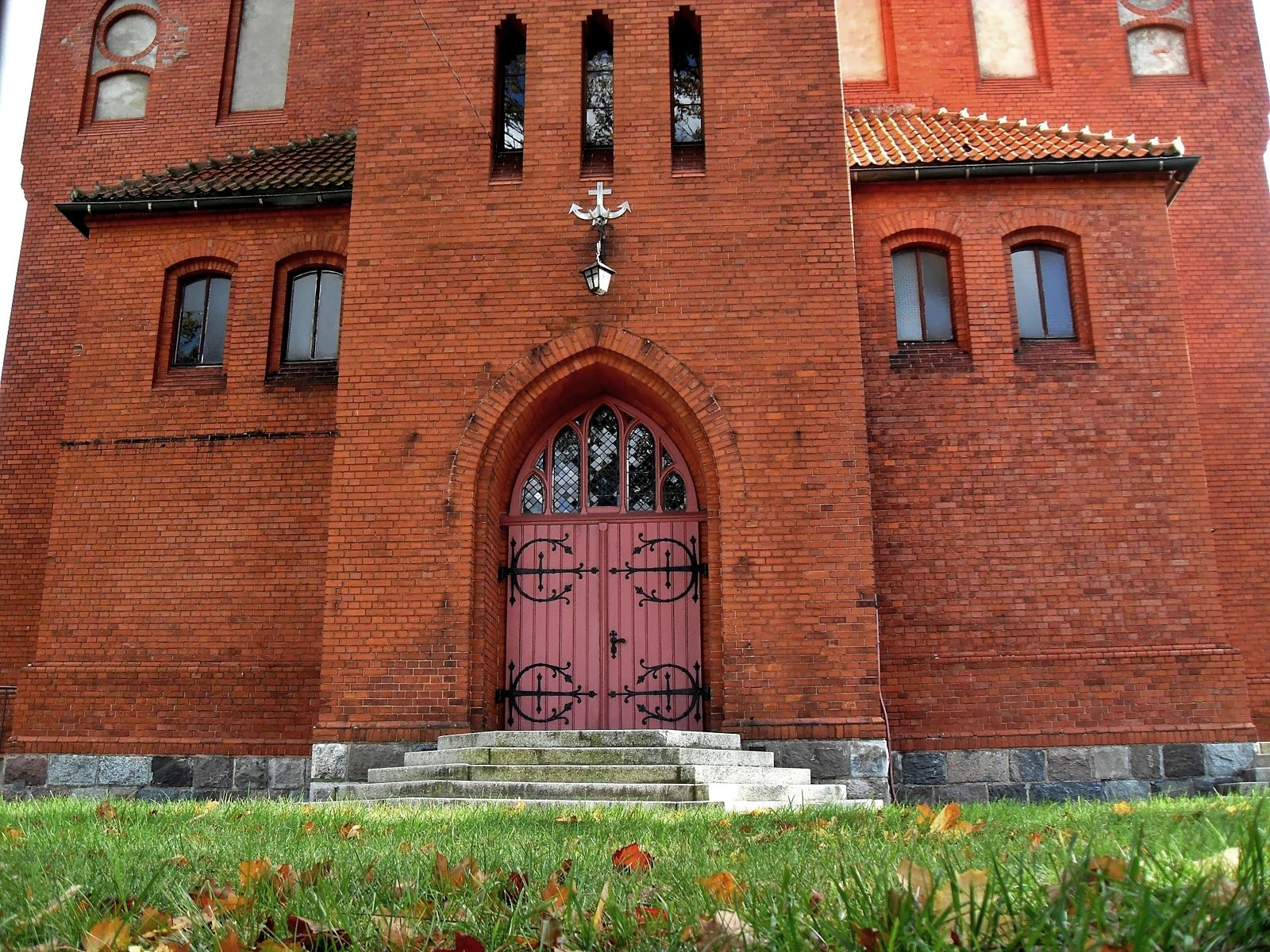 The main entrance to the church